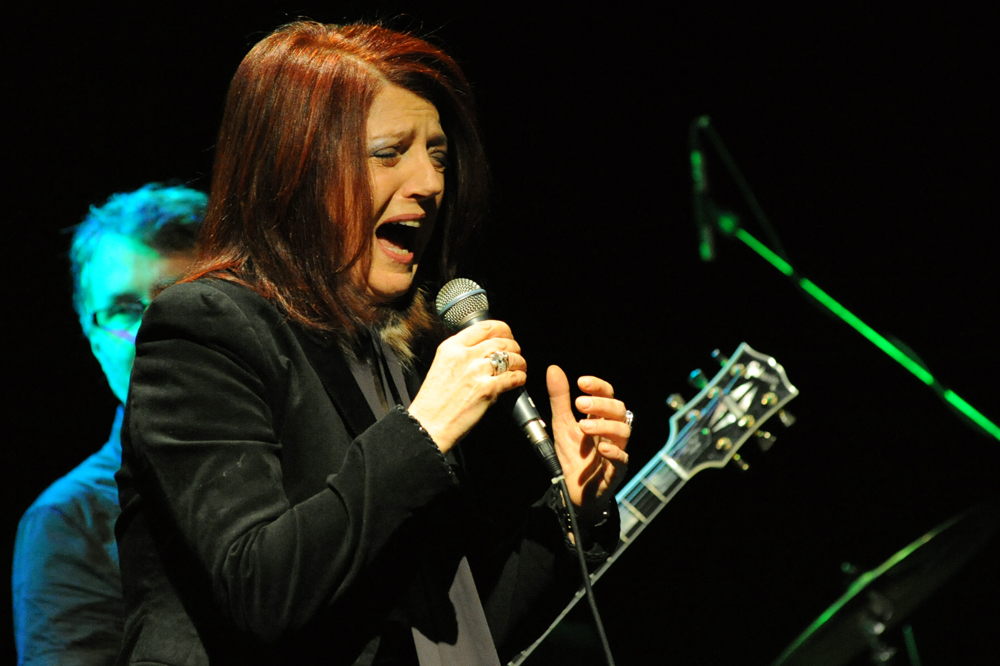 Urszula Dudziak performing at a benefit concert in Warszawa, Poland in November 2010.